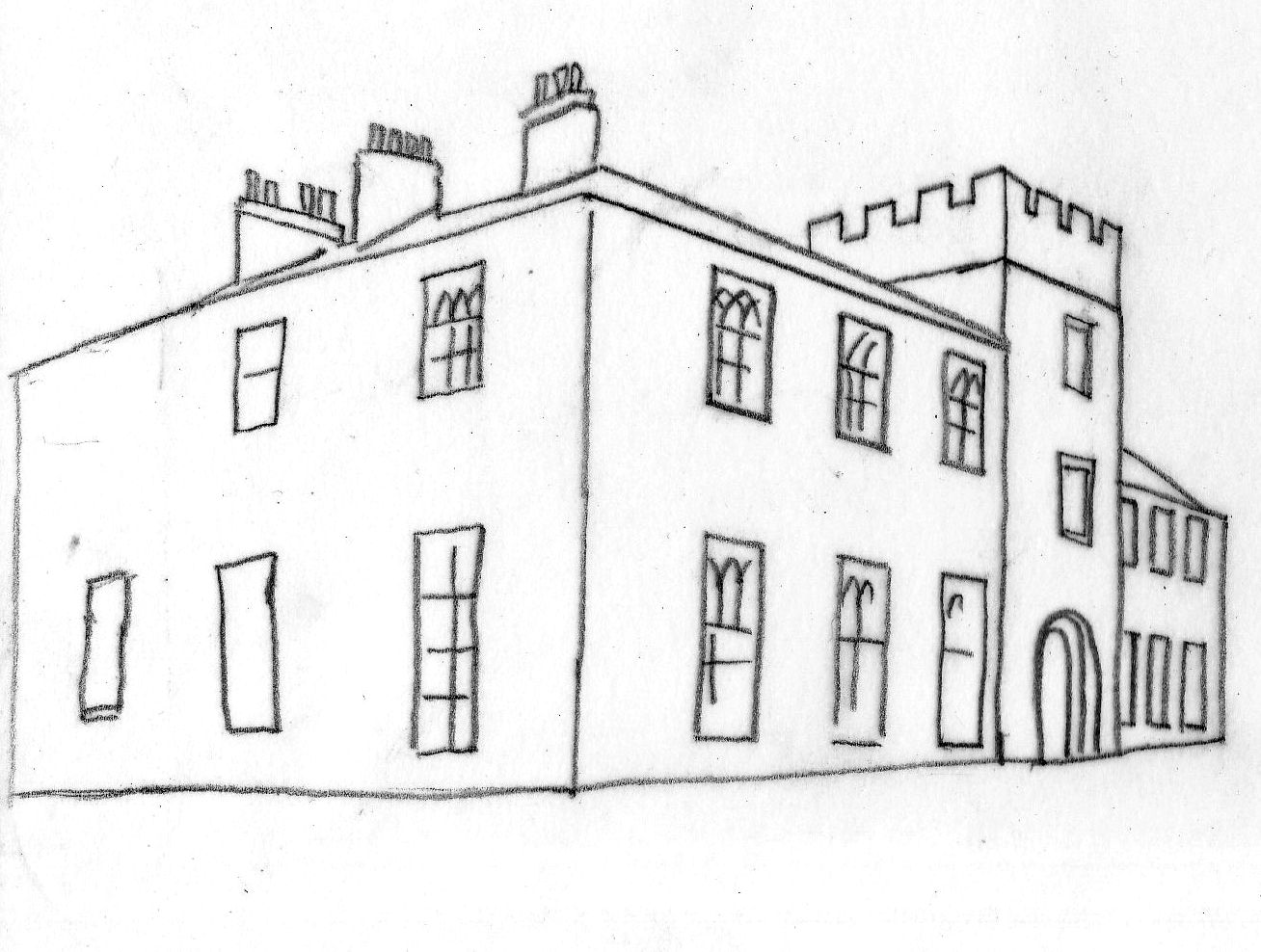 Yeo Vale House, Alwington, Devon; view from south-west. Demolished 1973